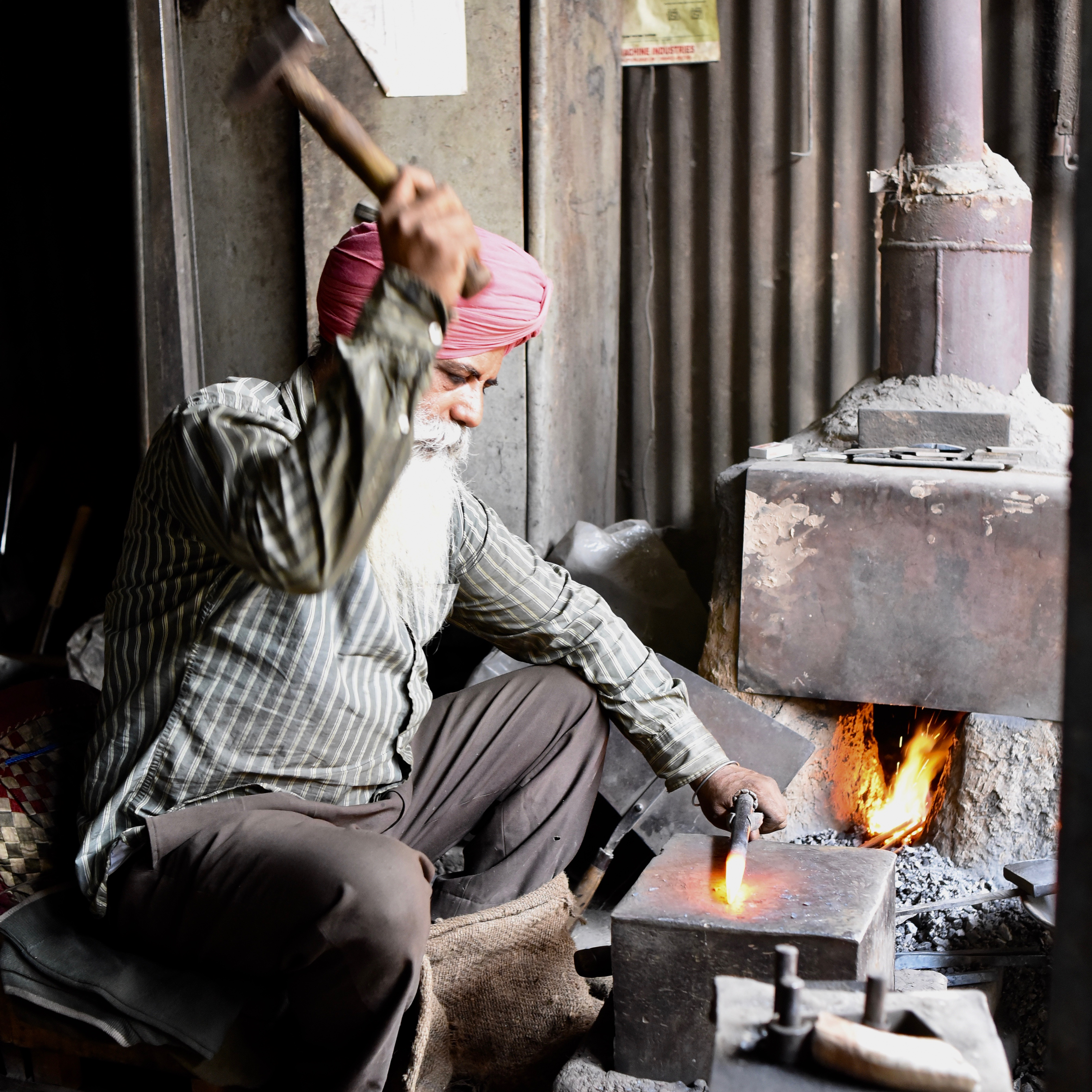 blacksmith working on an iron rod, swinging the hammer